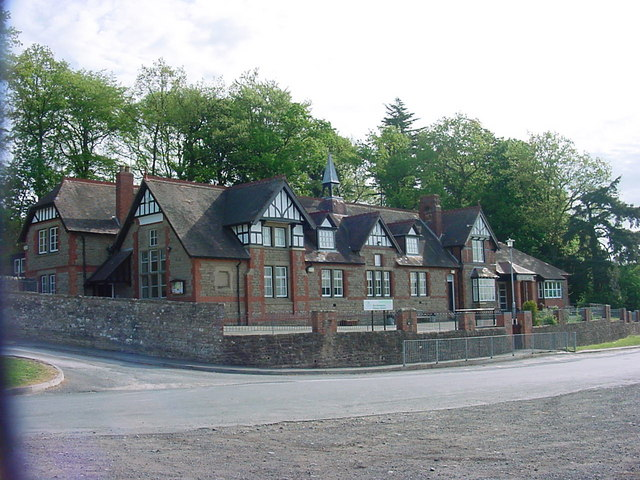 Bromyard Downs - Brockhampton Primary School Opened on the 1st of June 1885. The original school opened with 7 children, it had one classroom, a hall and a house for the Head Teacher. The school has been improved over the years and now has seven classrooms.